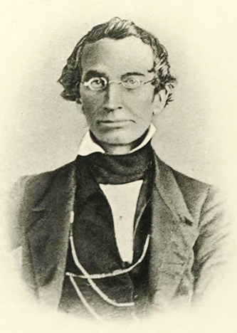 Portrait of Nicholas Marcellus Hentz